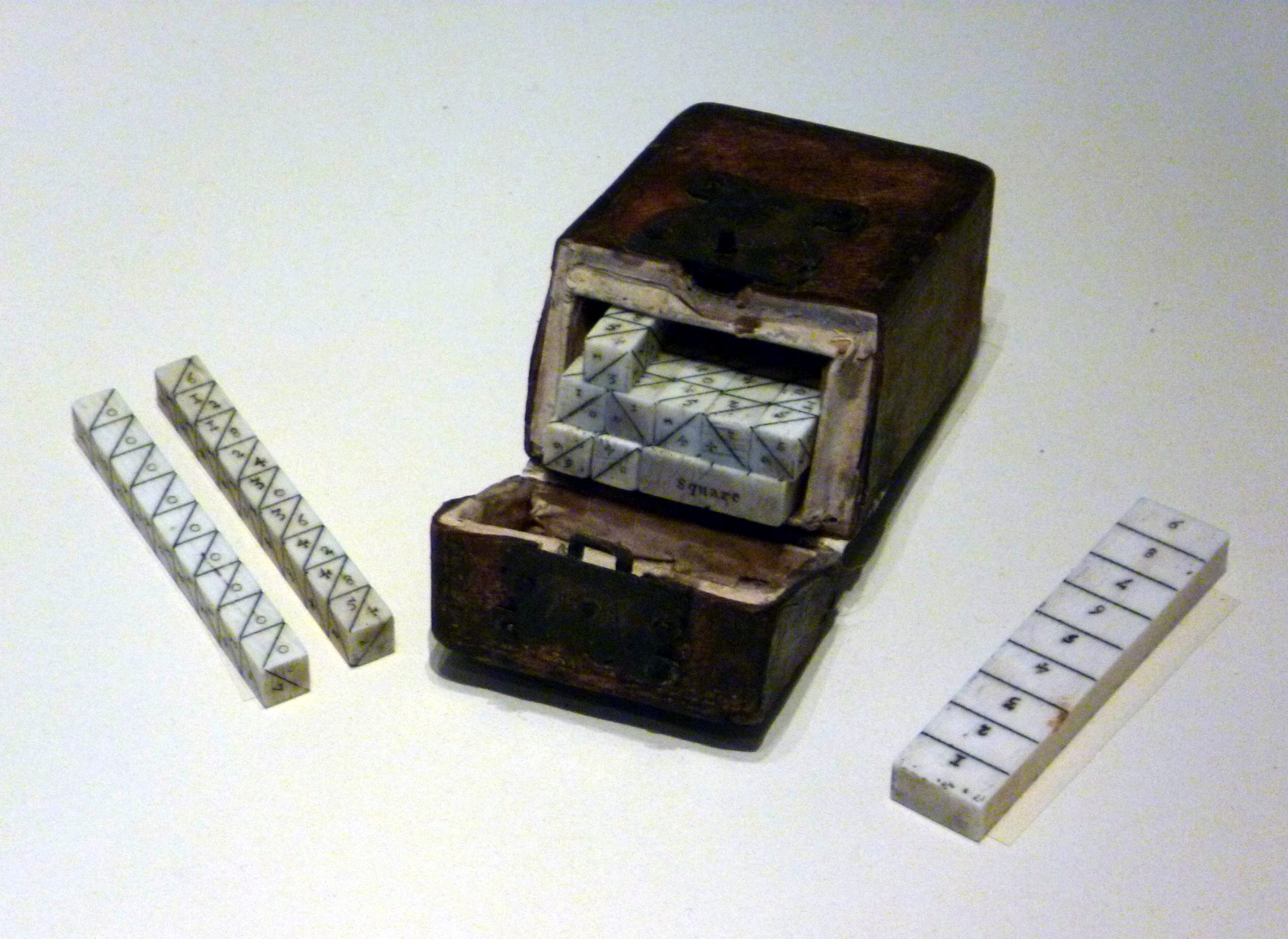 An ivory set of Napier's Bones from around 1650. An exhibit in the National Museum of Scotland.